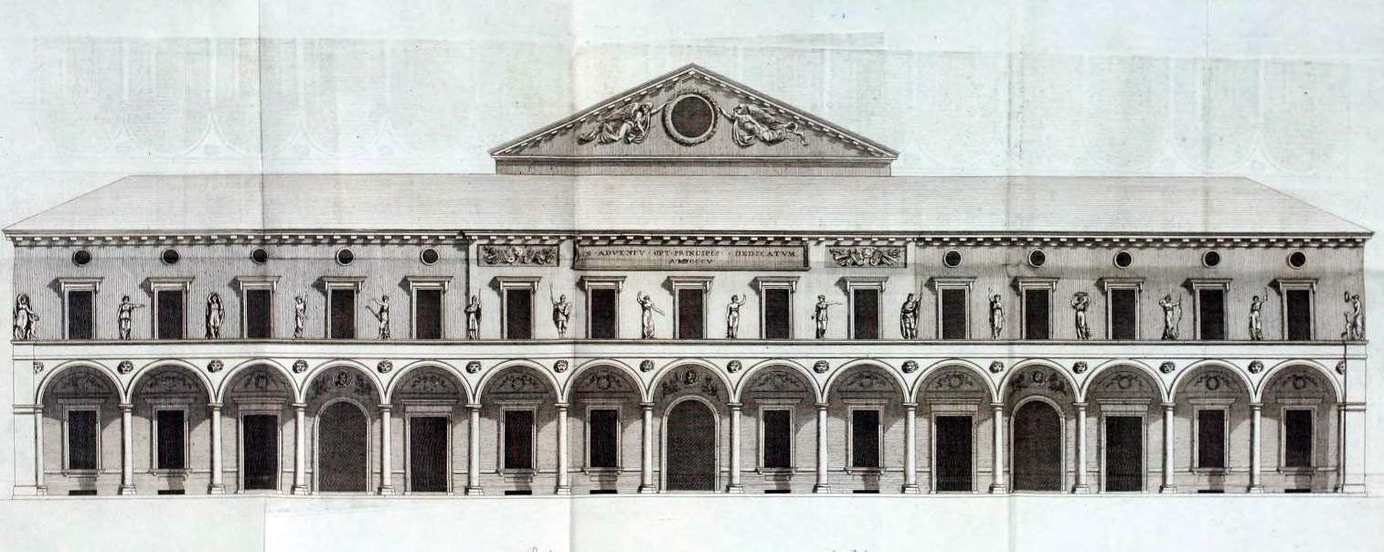 Engraving of the the facade of the now demolished Teatro del Corso in Bologna